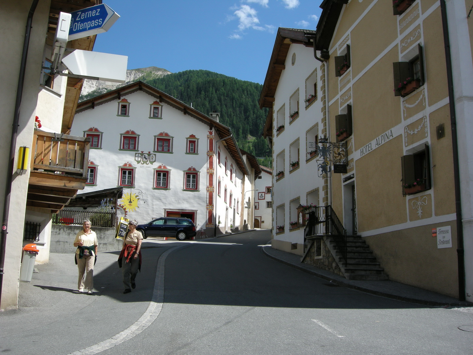 Santa Maria Val Müstair in Graubunden, Switzerland